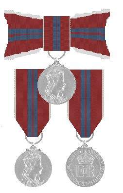 Coronationmedal 1953 United Kingdom